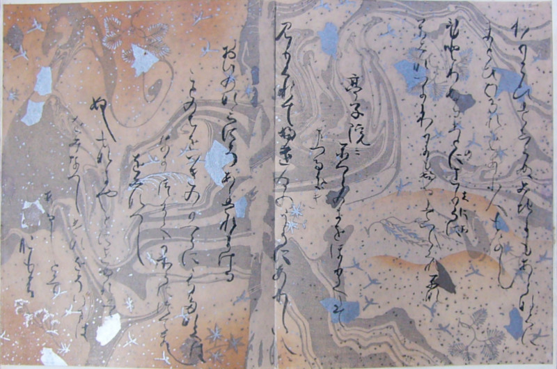 Two pages of the collected poems of Ōshikōchi Mitsune (859?-925?) . 20cm height, 32cm wide. Silver, Gold, Colour, and ink on ornamented paper. One of the Collection of the works of thirty six master poets in the NISHI-HONGANJI, Kyoto. about ACE1100, Most luxurious illuminated manuscript books survived from ancient Japan.